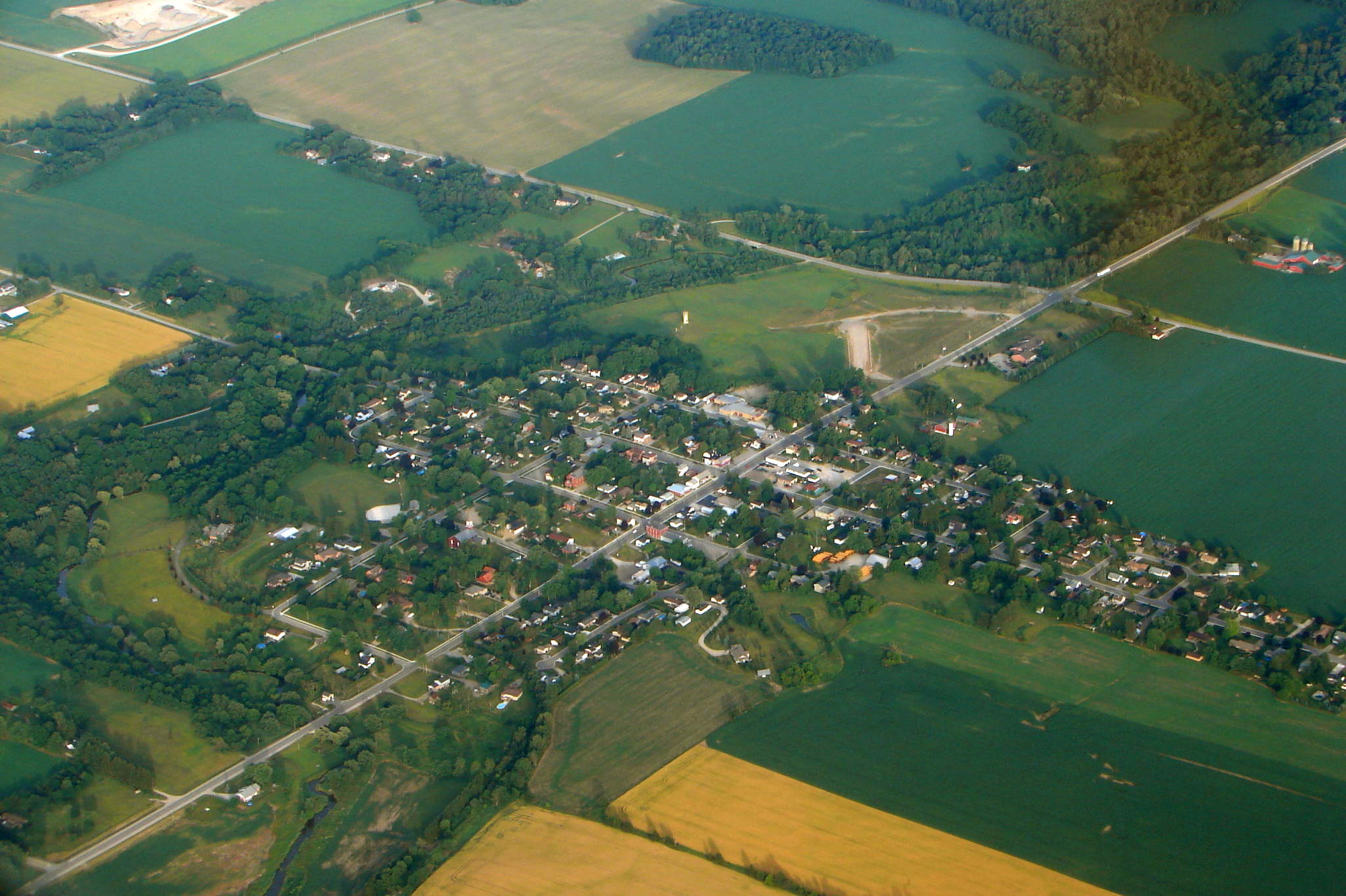 Aerial view of Embro (Zorra Township), Ontario, Canada